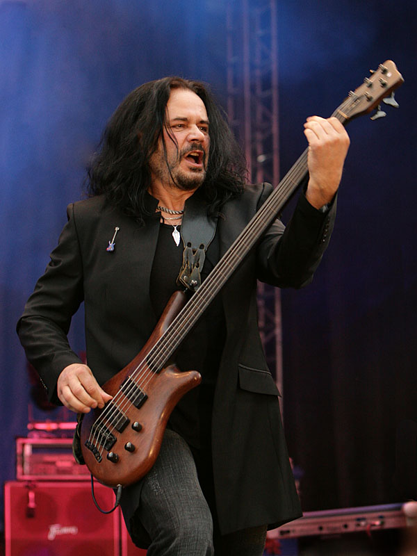 Hans-Jürgen Reznicek, on stage with Silly, Chemnitz/Saxony 2007.